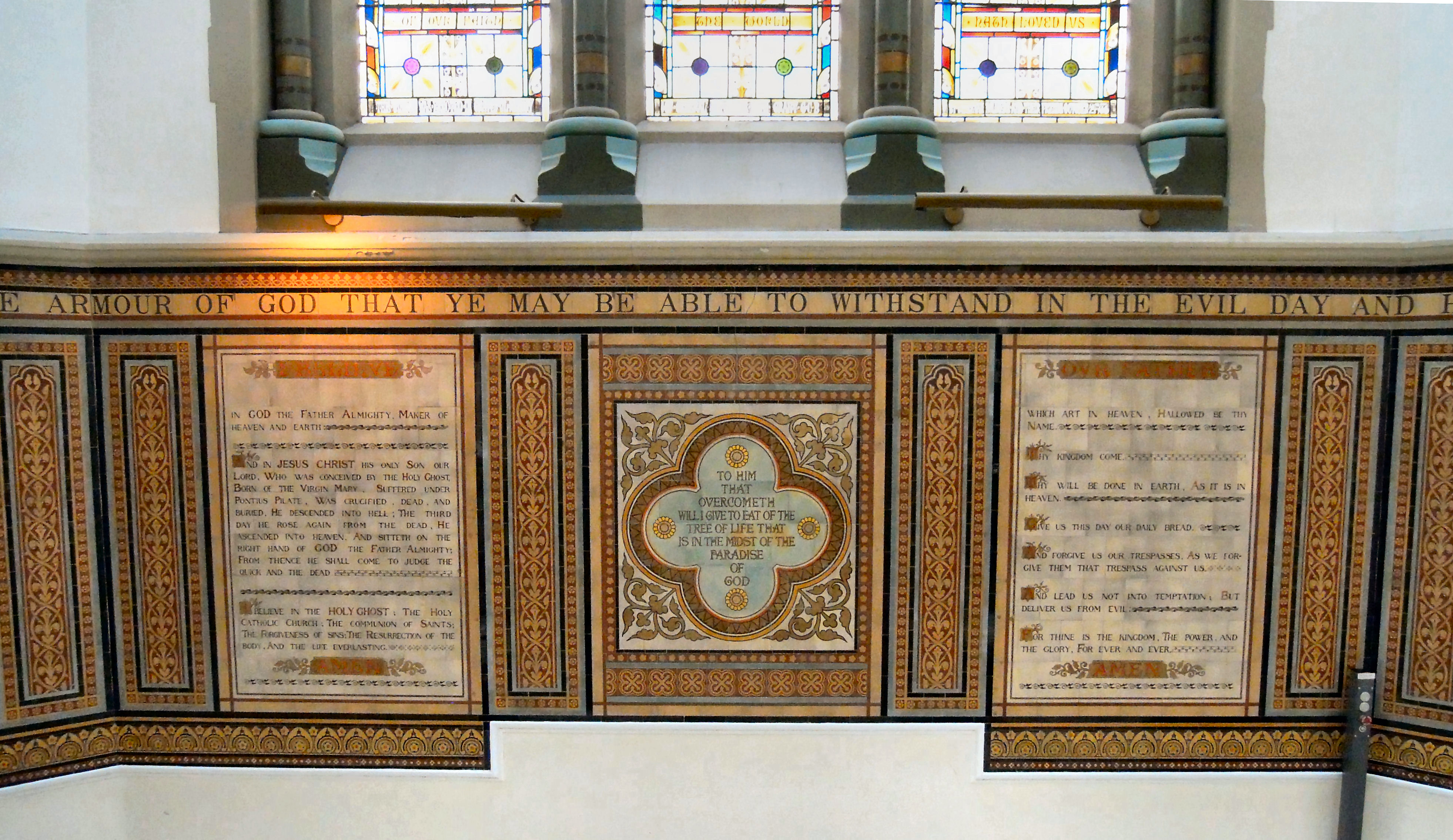 The reredos in the former Wesleyan Church in Aldershot, Hampshire.